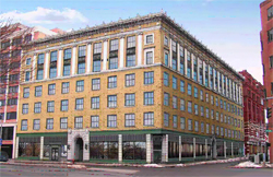 Hollander Exterior 1